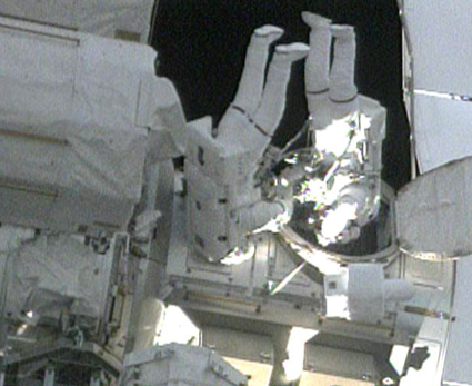 Mission Specialists Mike Foreman and Randy Bresnik work outside the International Space Station during the second spacewalk of the STS-129 mission.